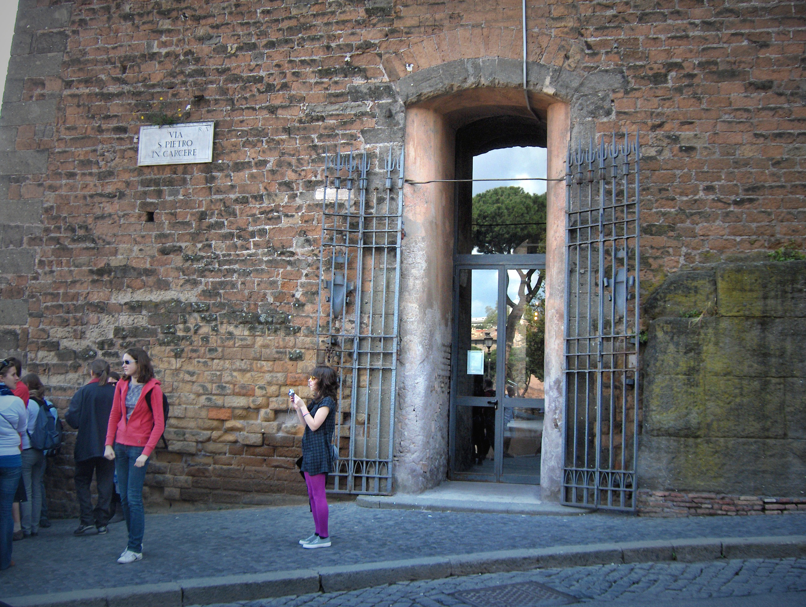 Via San Pietro in Carcere, close to the place of execution, the Gemonian Stairs; Rome, Italy